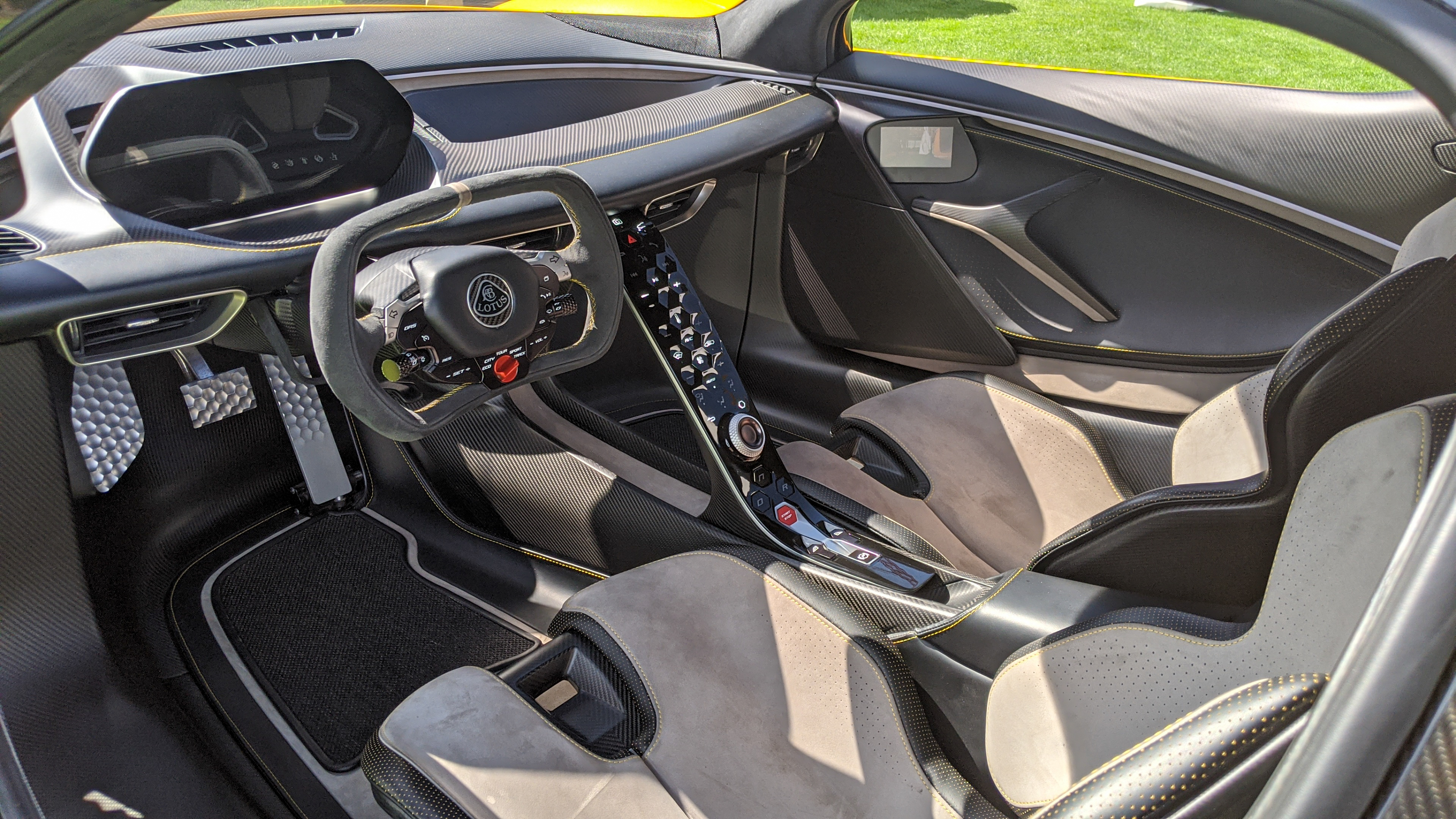 2020 Lotus Evija Interior Taken at the London Concours 2020